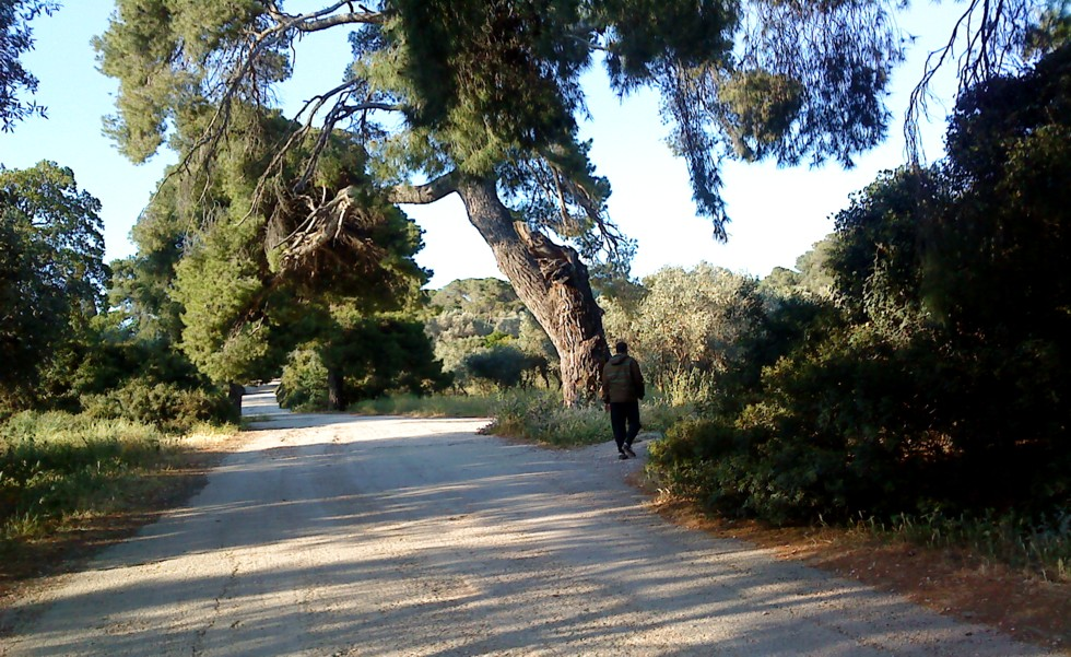 Anavryta forest